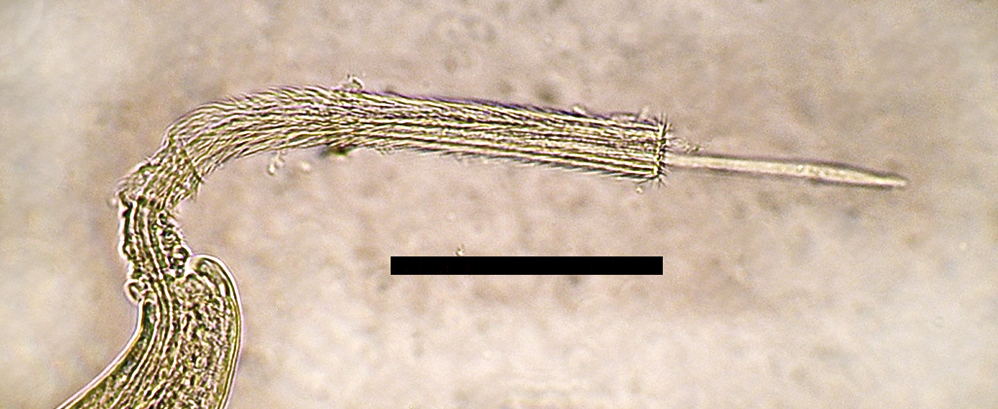 Male Eucoleus aerophilus with extruded spinose spicule sheath and partially extruded spicule at the caudal part. Scale bar – 100 μm.